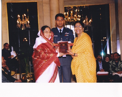 receipent of padmbhushan dr. moturi satyanarayan puraskar, Usha Priyamvada